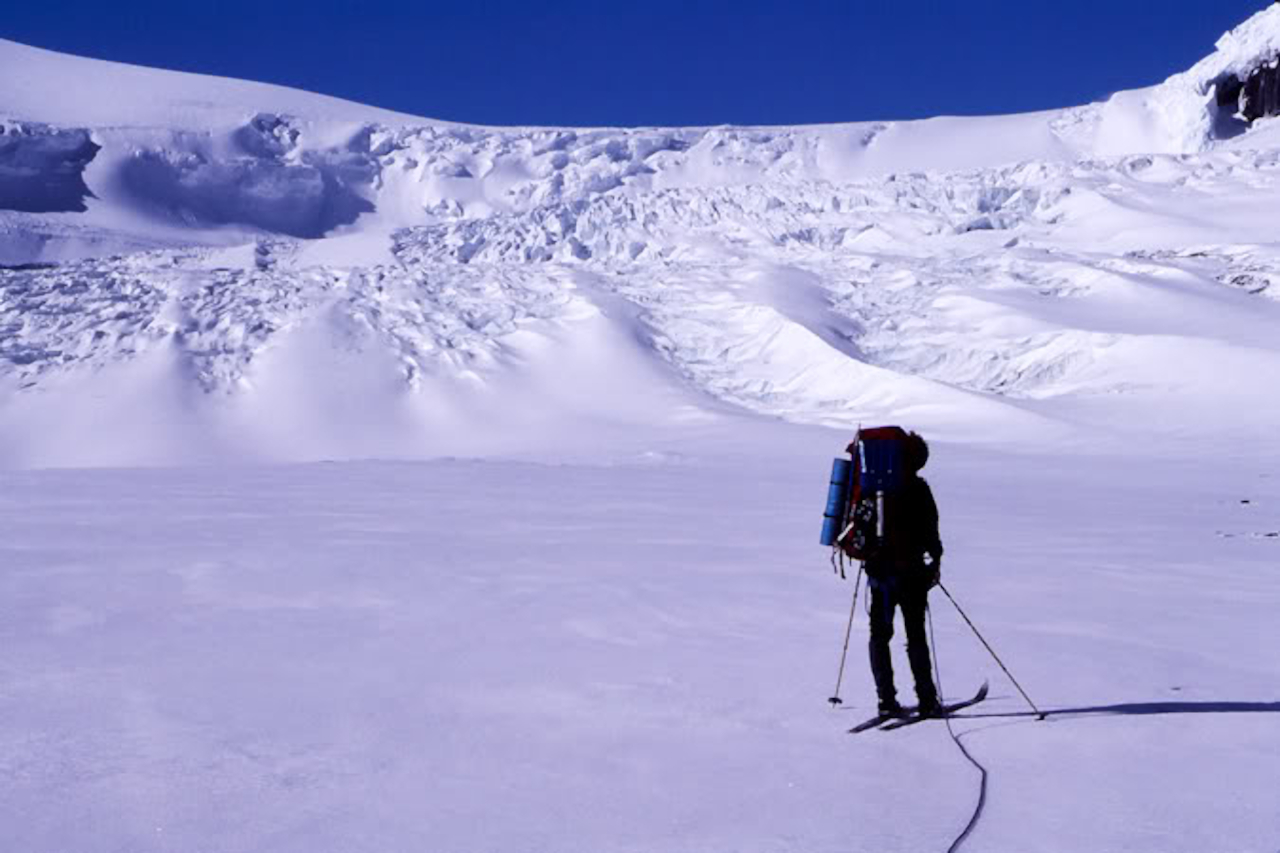 Approaching the Athabasca Glacier Headwall circa 1986 - the route is to the right near the headwall's bottom and up the smooth ramp visible near the top; Doug leading.